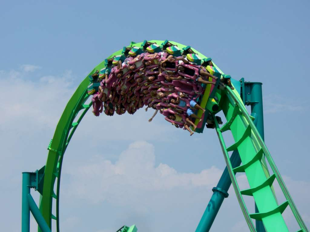 Hydra at Dorney Park.